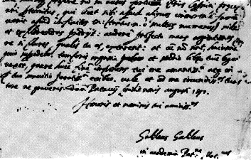 The letter from Galileo, to Kepler